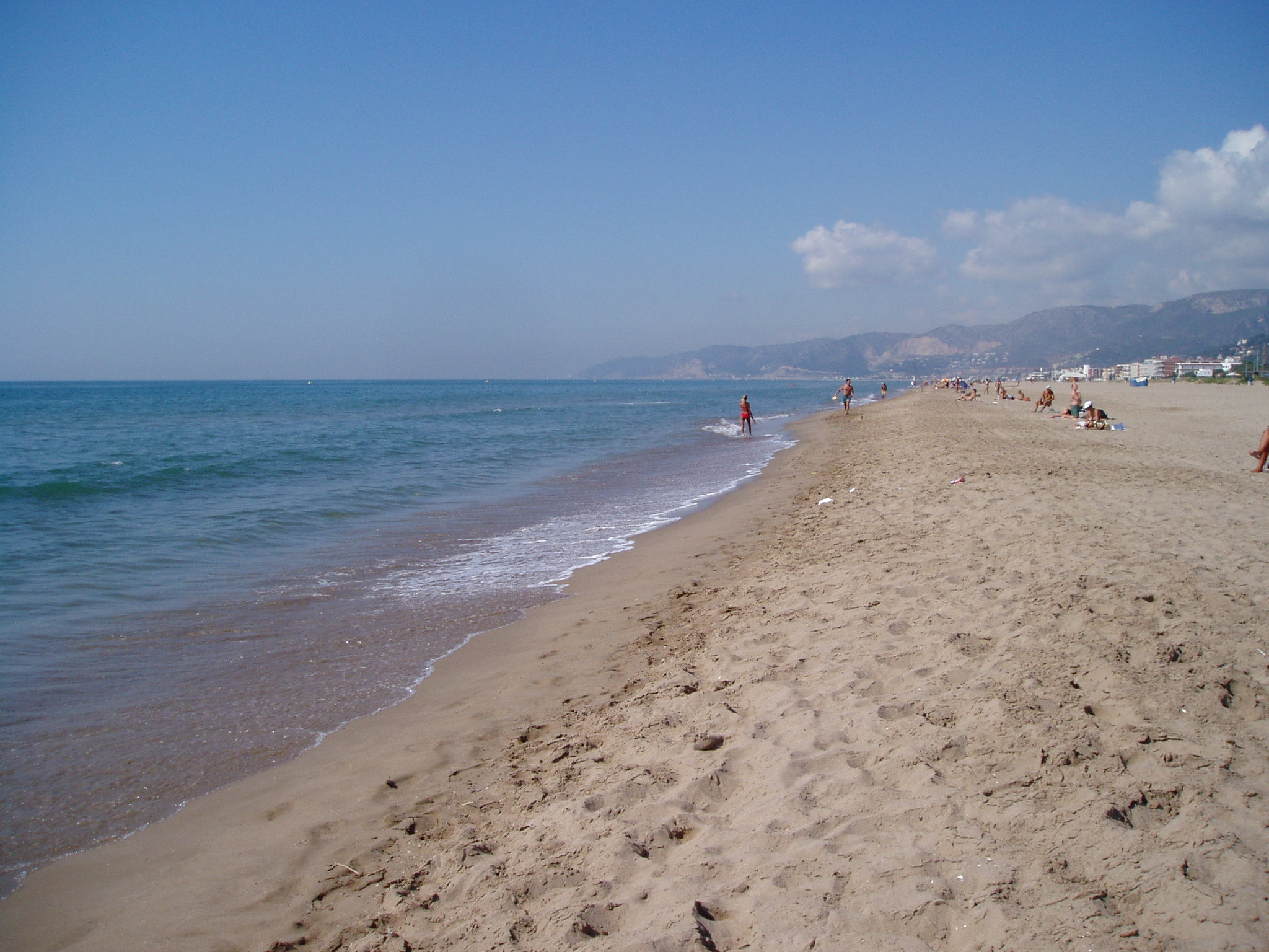 September in Castelldefels